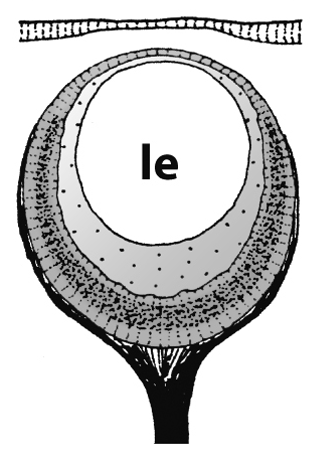 Lens eye of Bolinus brandaris, synonym: Murex brandaris. le = lens.